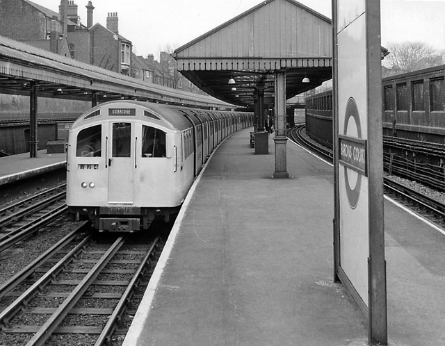 Barons Court Station View eastward, towards Earls Court, on westbound platform, with a Piccadilly Line train to Uxbridge.